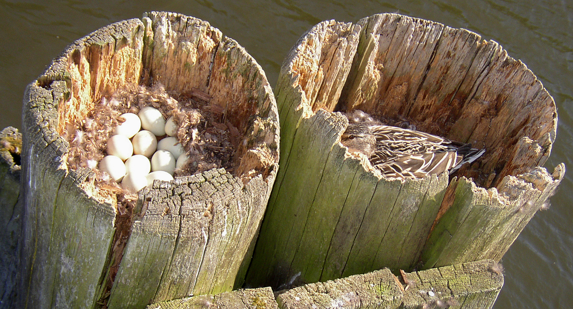 Nests of Ducks in an old wooden Dolphin (structure)